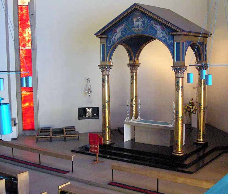 Transferred from en.wikipedia to Commons. The original description page was here. All following user names refer to en.wikipedia. The altar (with ciborium of All Saints Anglican church in Clifton, Bristol, England.